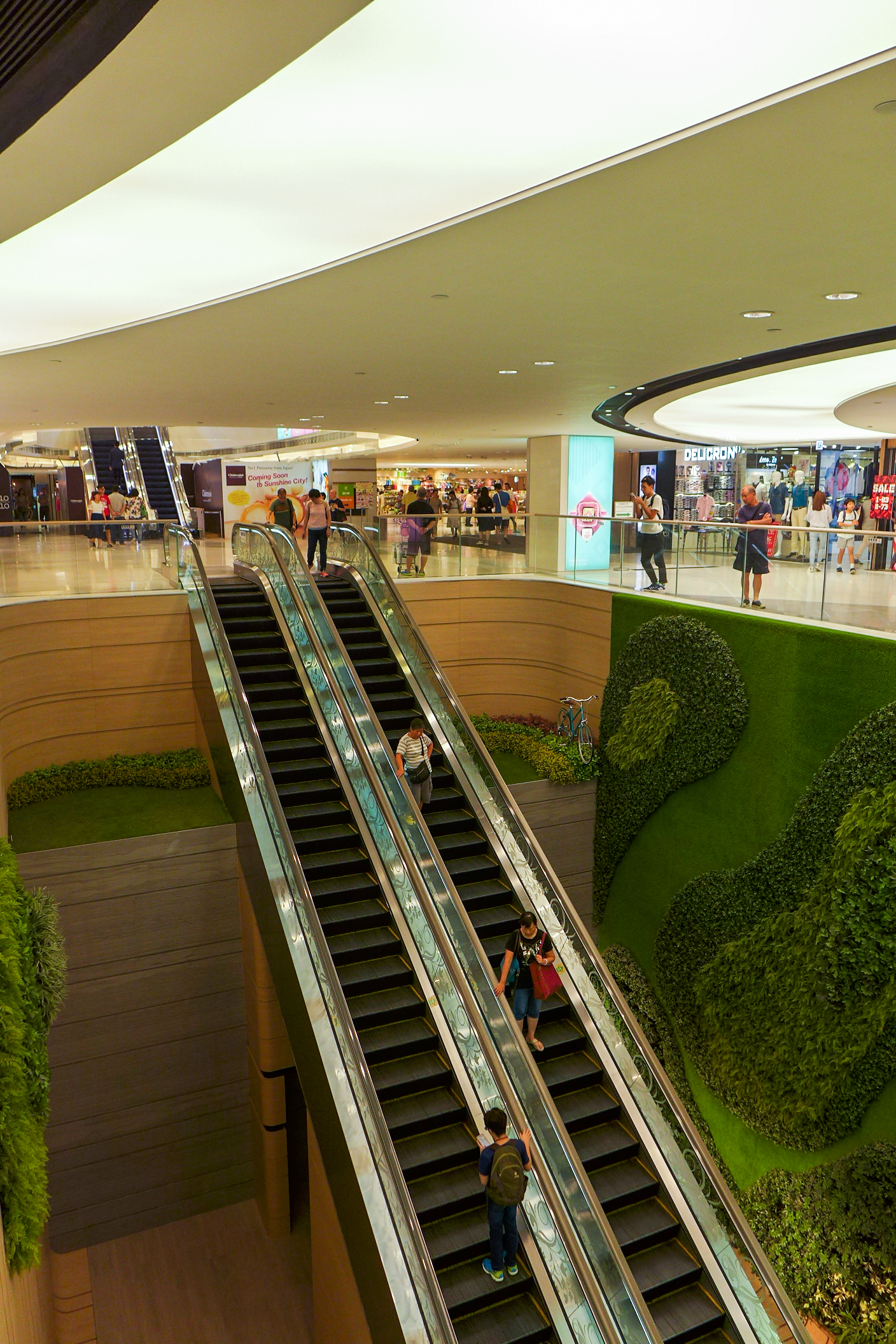 Sunshine City Plaza East Escalator Void